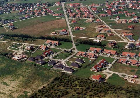 Telki, Hungary, aerialphotography